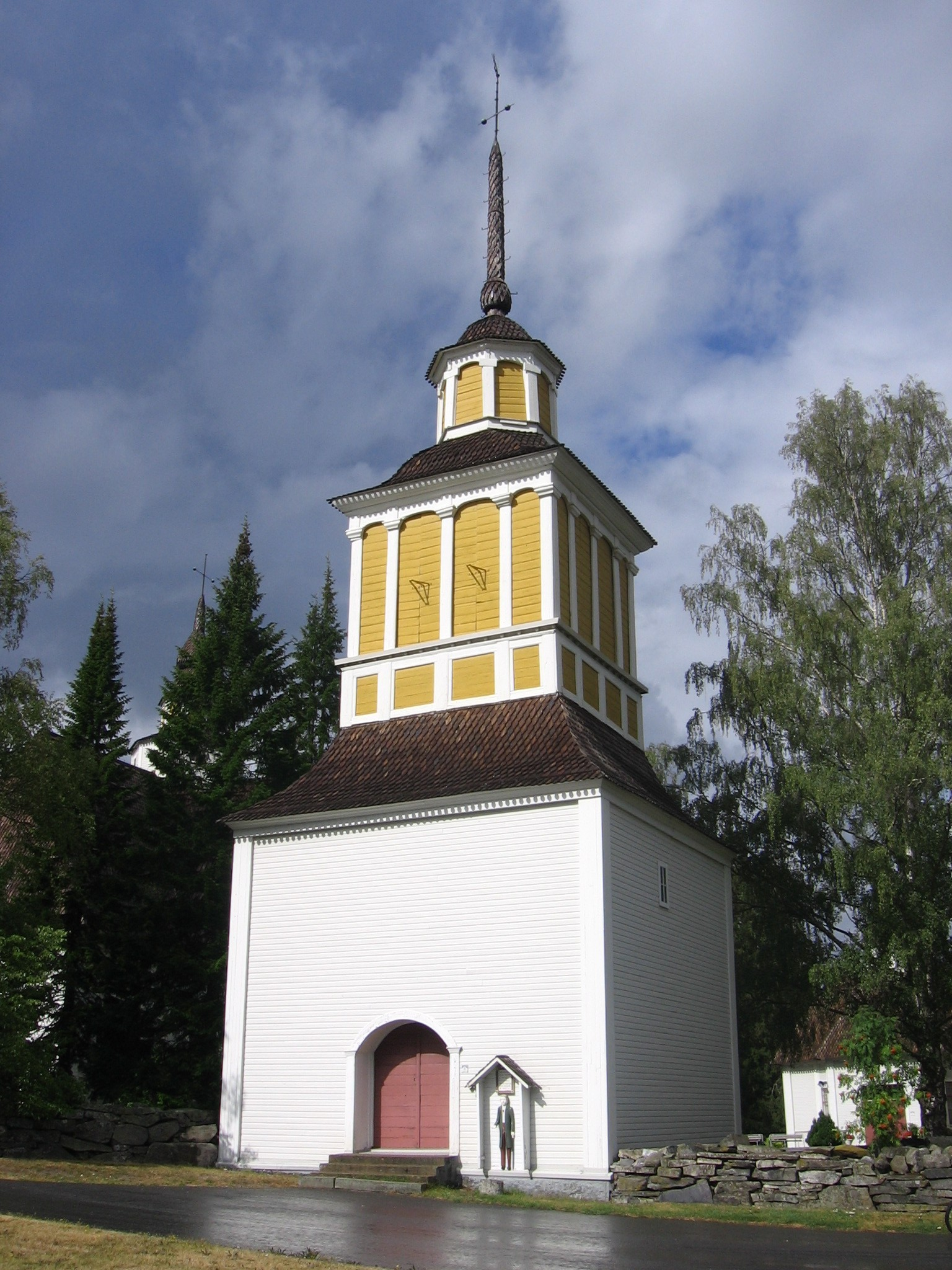 Belfry of the Nurmo Church in Nurmo (now part of Seinäjoki), Finland